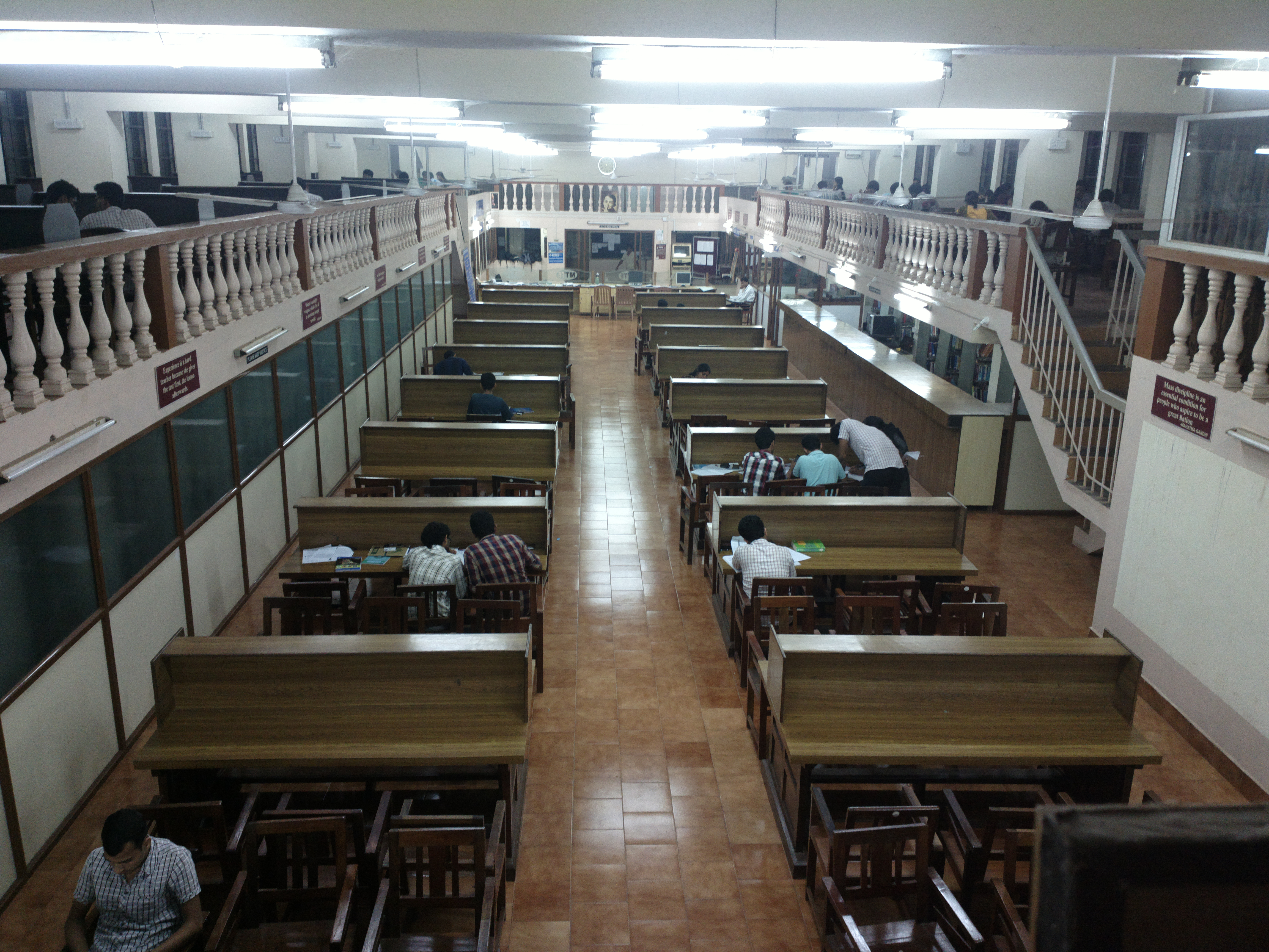 The Central Library in N.M.A.M.I.T.